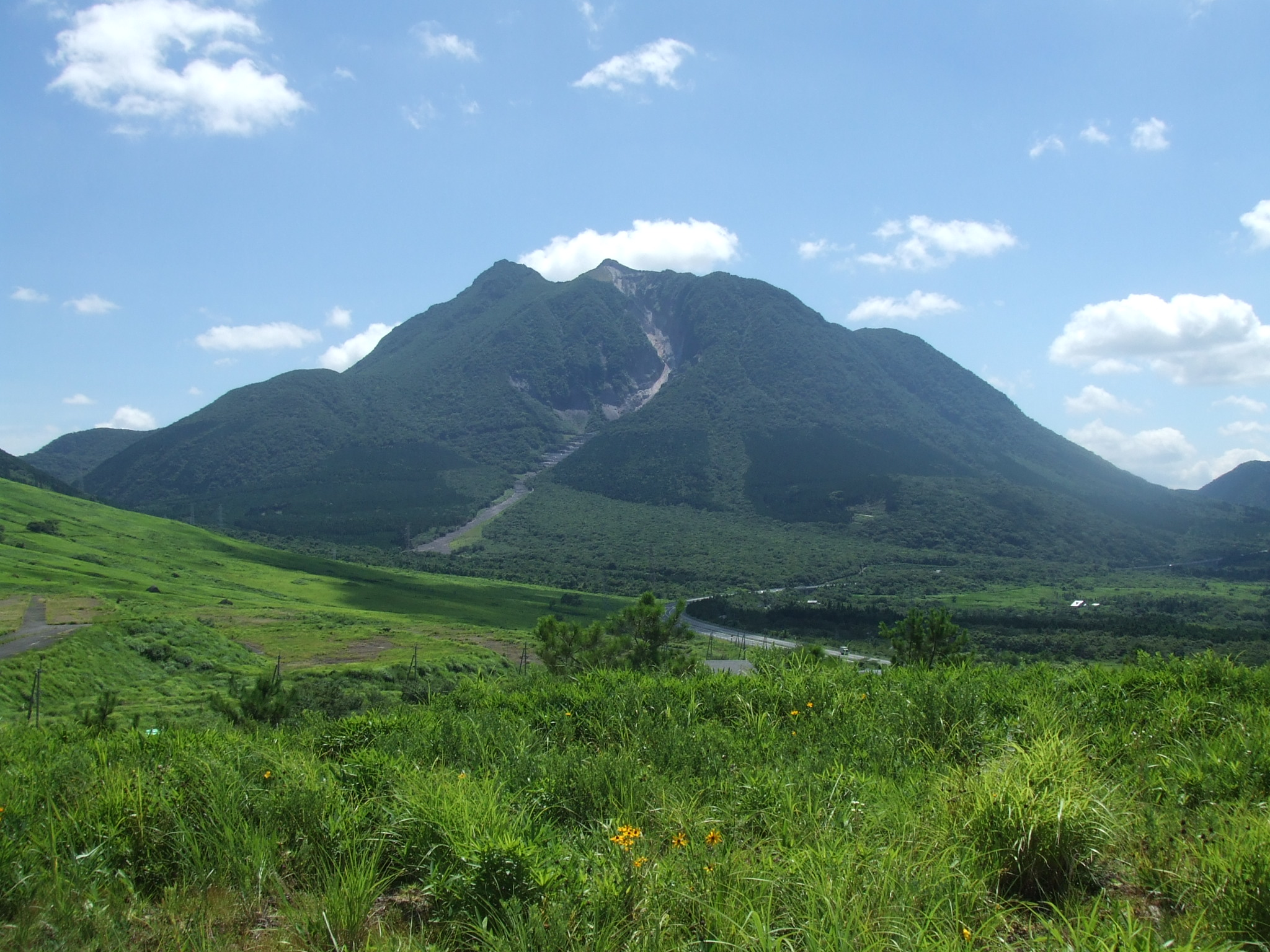 Mount Yufu seen from the NNE. Taken from Tsukaharakogen.